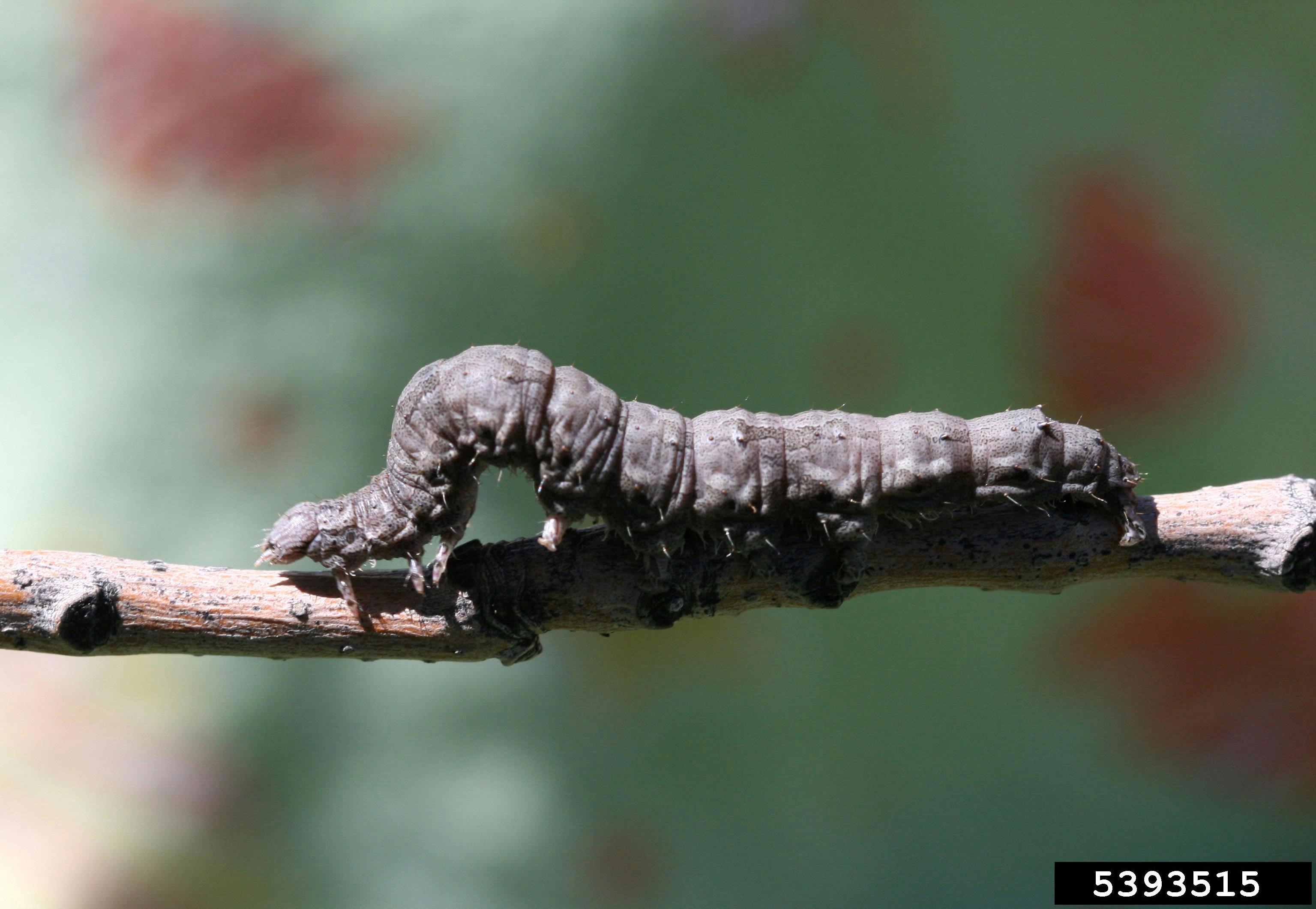 Catocala piatrix caterpillar on Black Walnut (Juglans nigra), United States of America